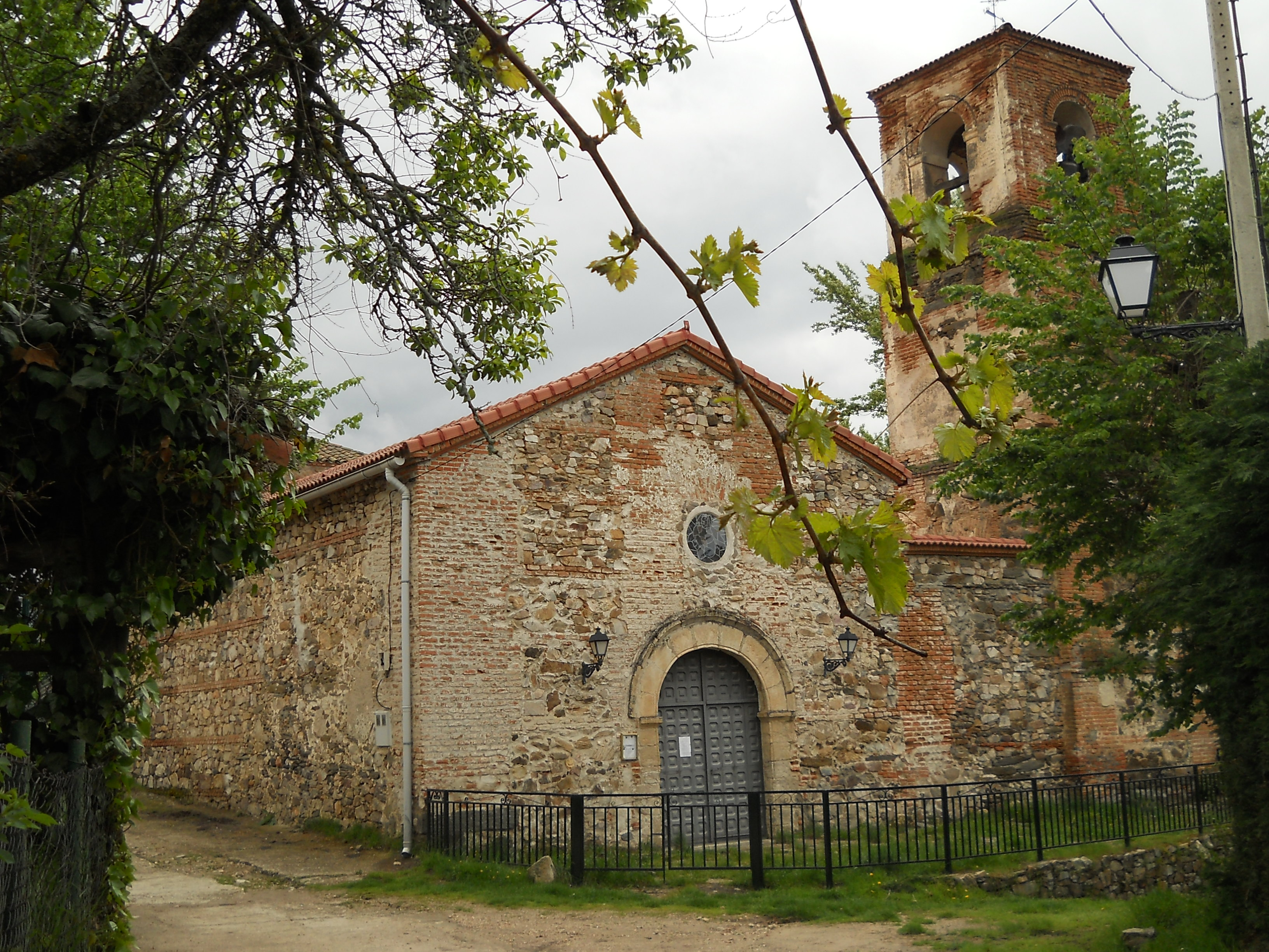 St. Mary church, Colmenar de la Sierra, El Cardoso de la Sierra, Guadalajara, Spain